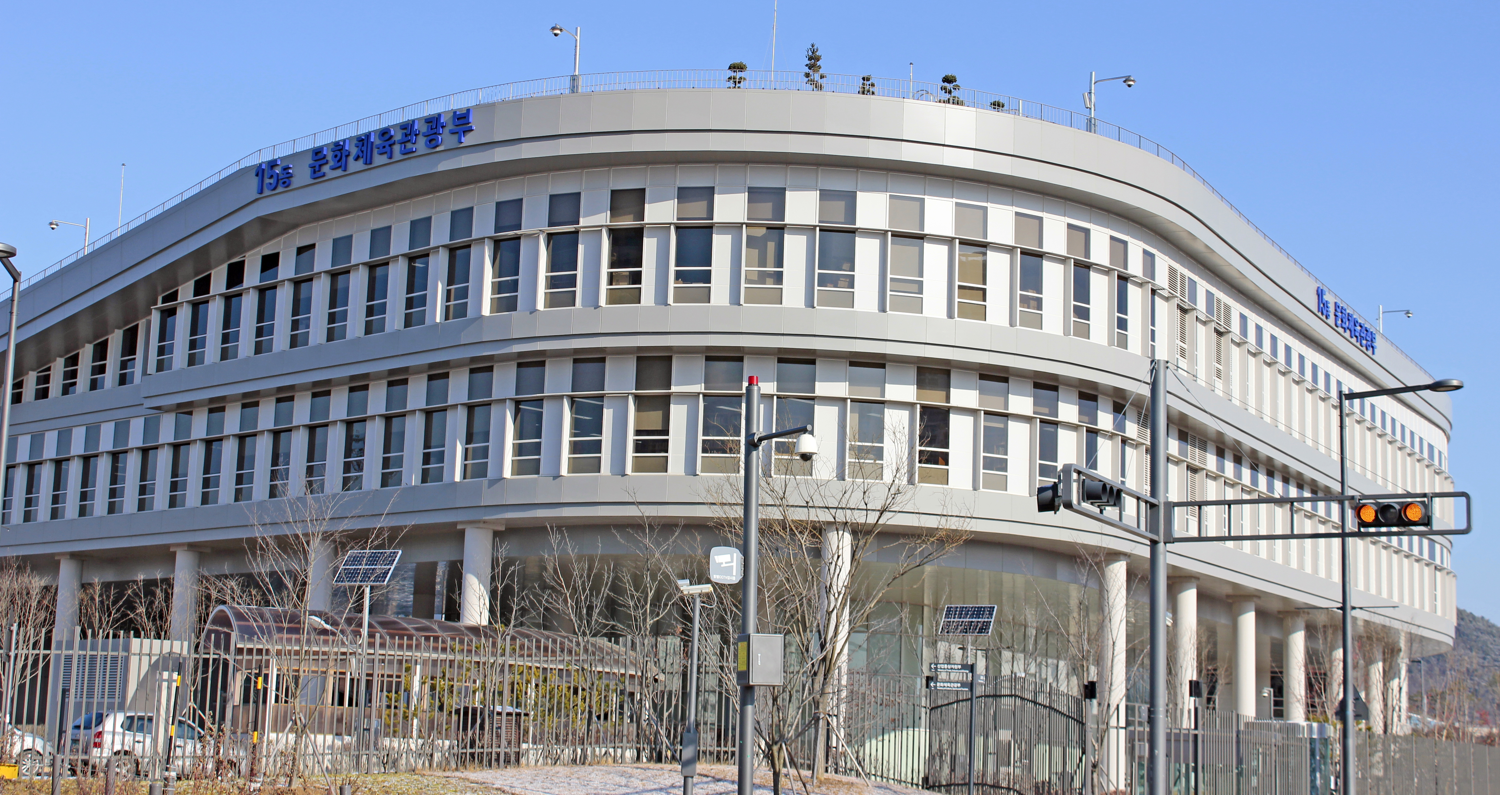 Ministry of Culture, Sports and Tourism @Government Complex Sejong #15